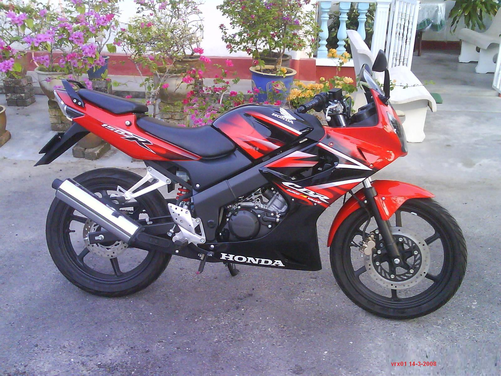 CBR150R